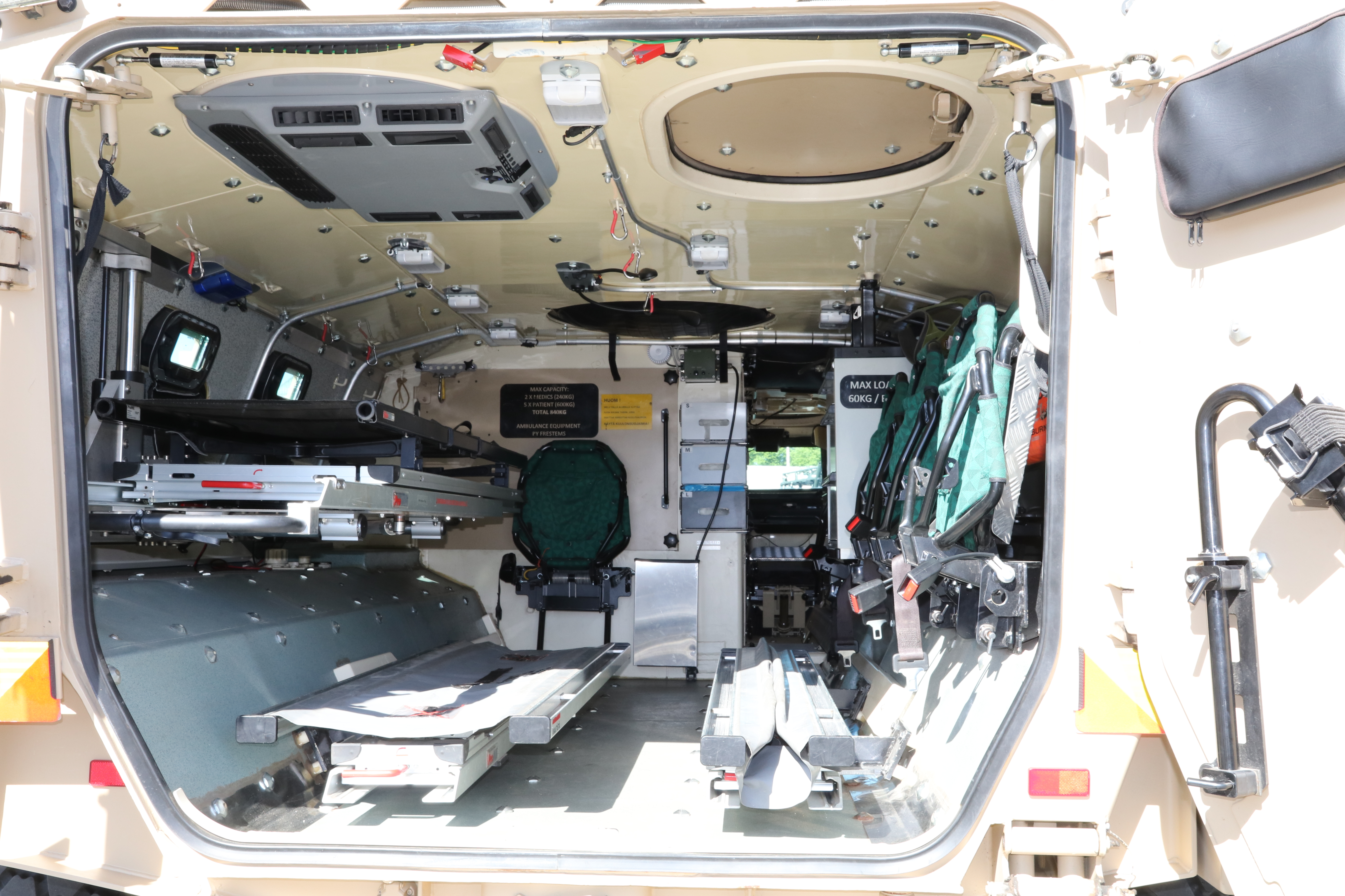 Pasi XA-185AS ambulance Ps 878-655. Photographed in 2016 Finnish defence forces flag day equipment exhibition in Turku Forum Marinum.